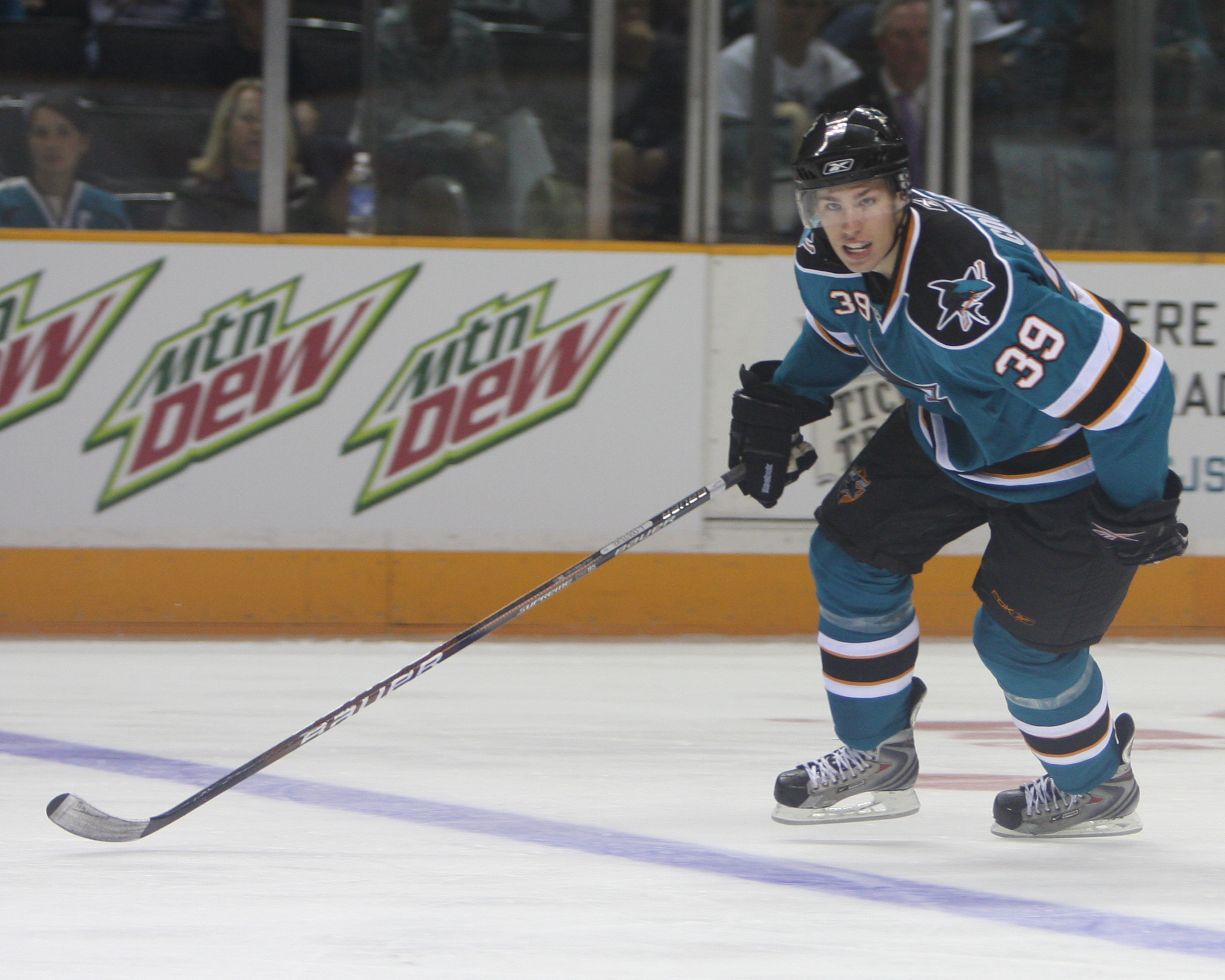 Logan Couture during the SJ Sharks Teal And White Game